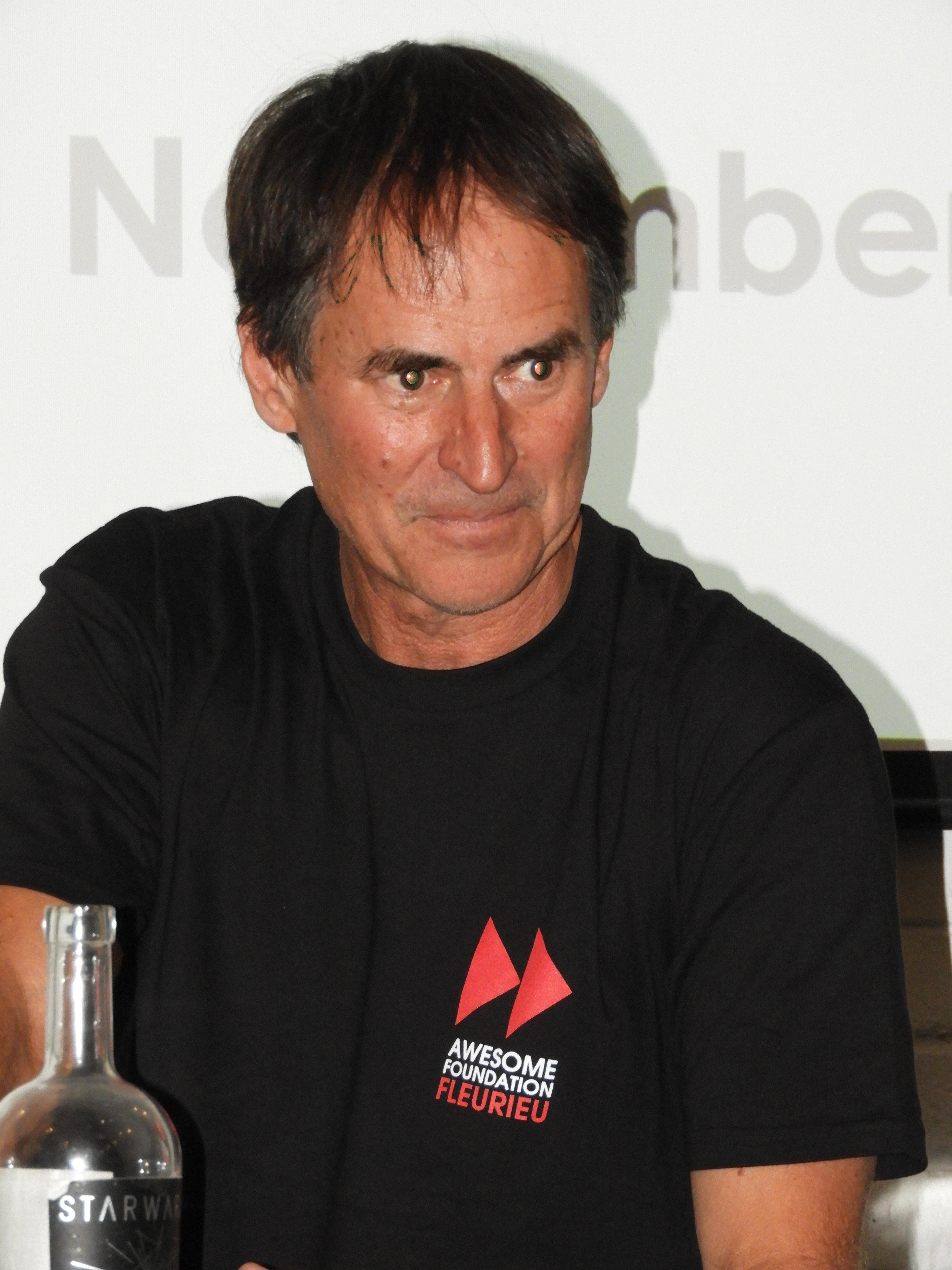 Alan Noble, tech entrepreneur gives a presentation about AusOcean in Adelaide, South Australia.